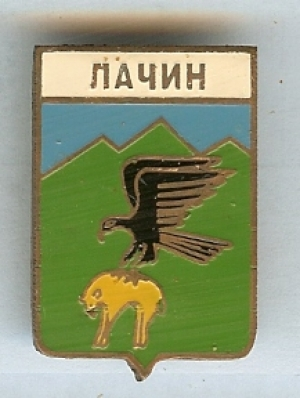 Symbol of Lachin, town in Azerbaijan.